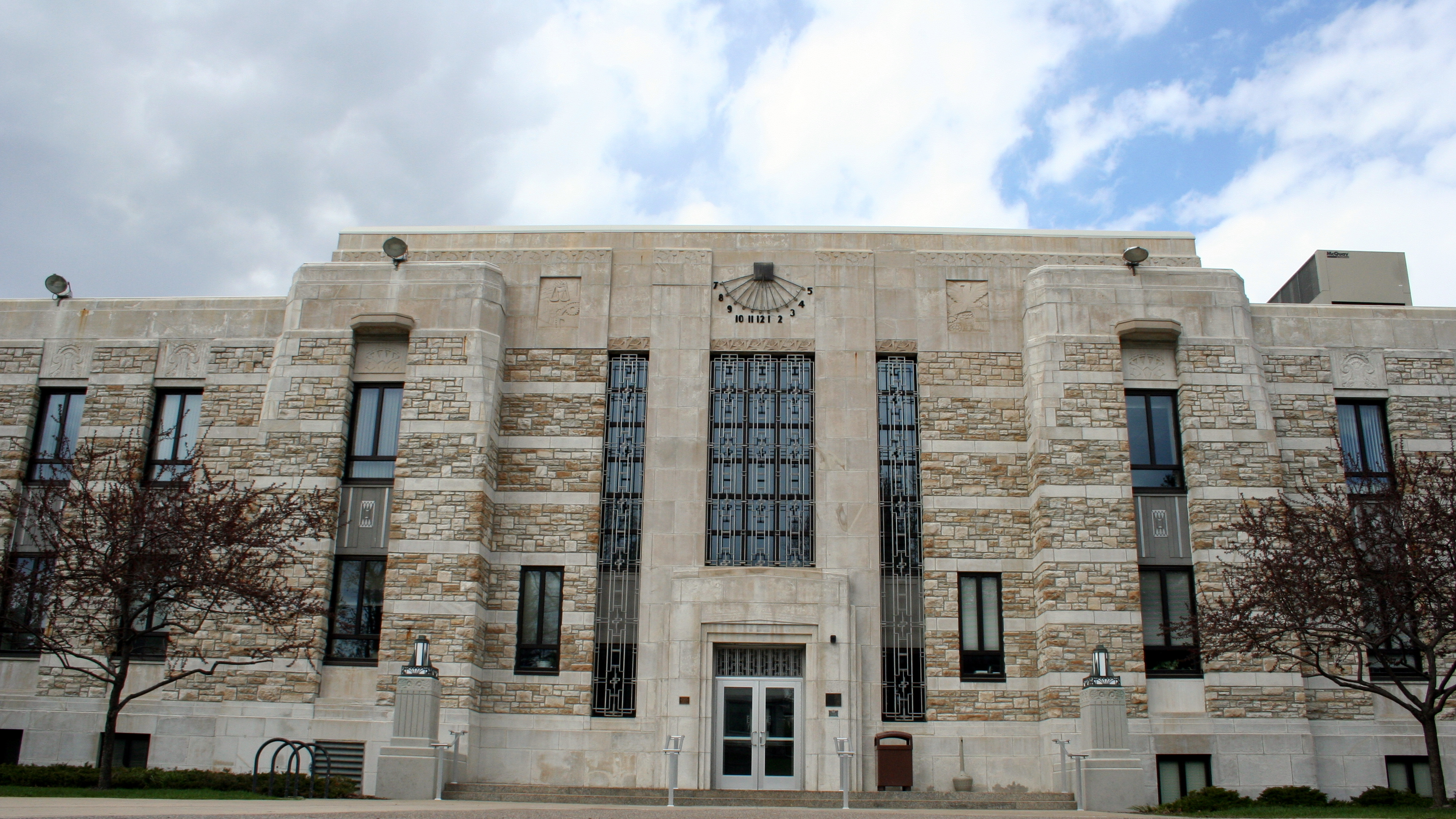 The south side of the Rice County Courthouse in Faribault, Minnesota.